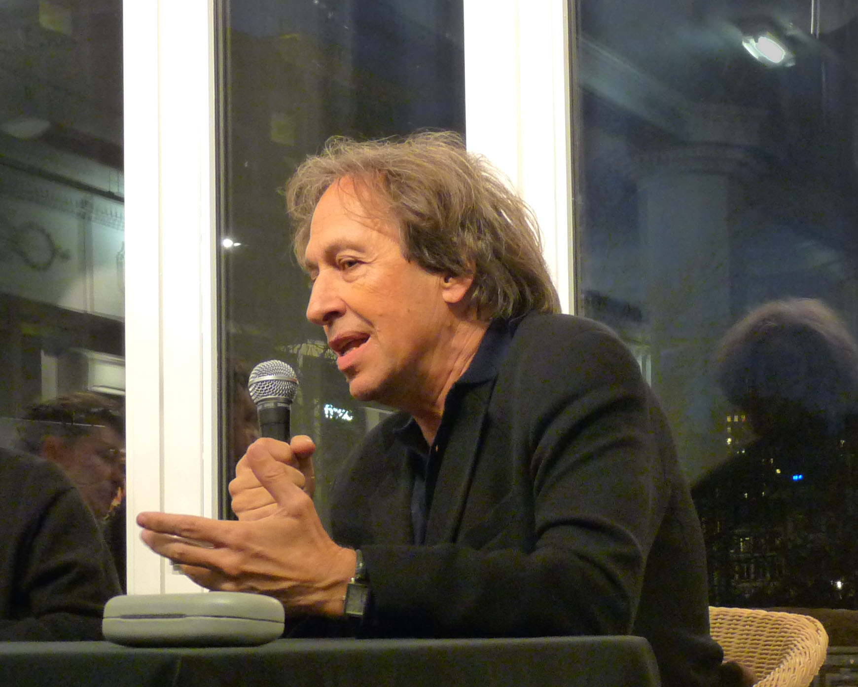 French writer Pascal Bruckner